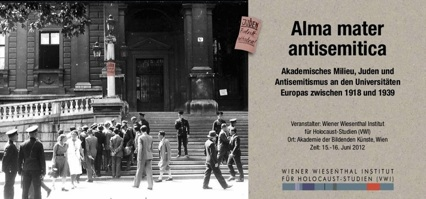 VWI-Workshop "Alma Mater Antisemitica", 2012 SMALL